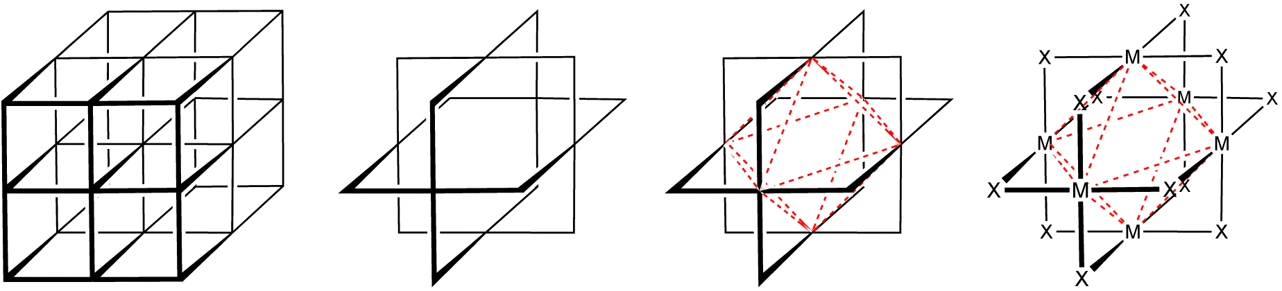 structure of beta-PtCl2